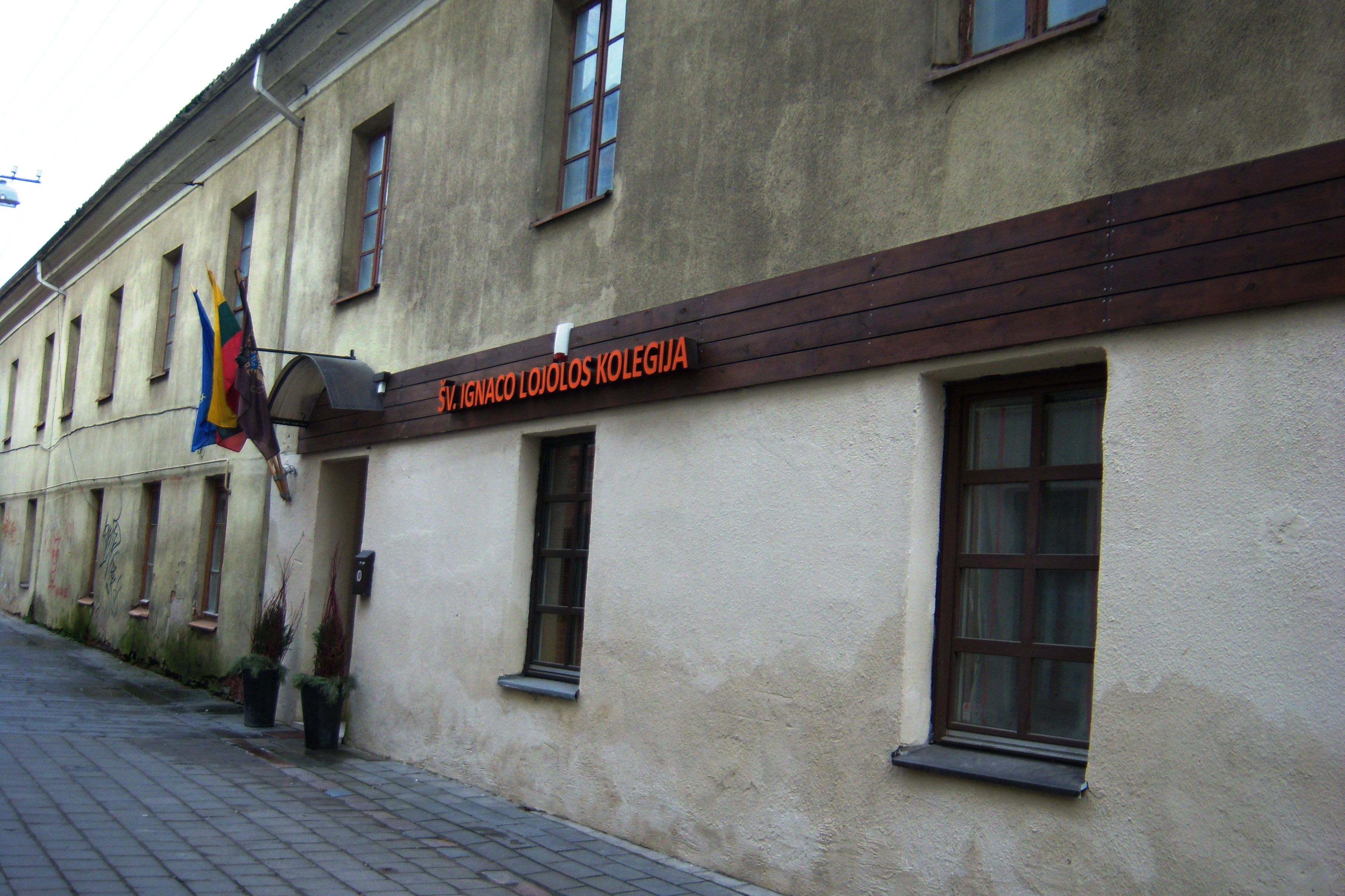 St. Ignatius of Loyola College, Kaunas, Lithuania